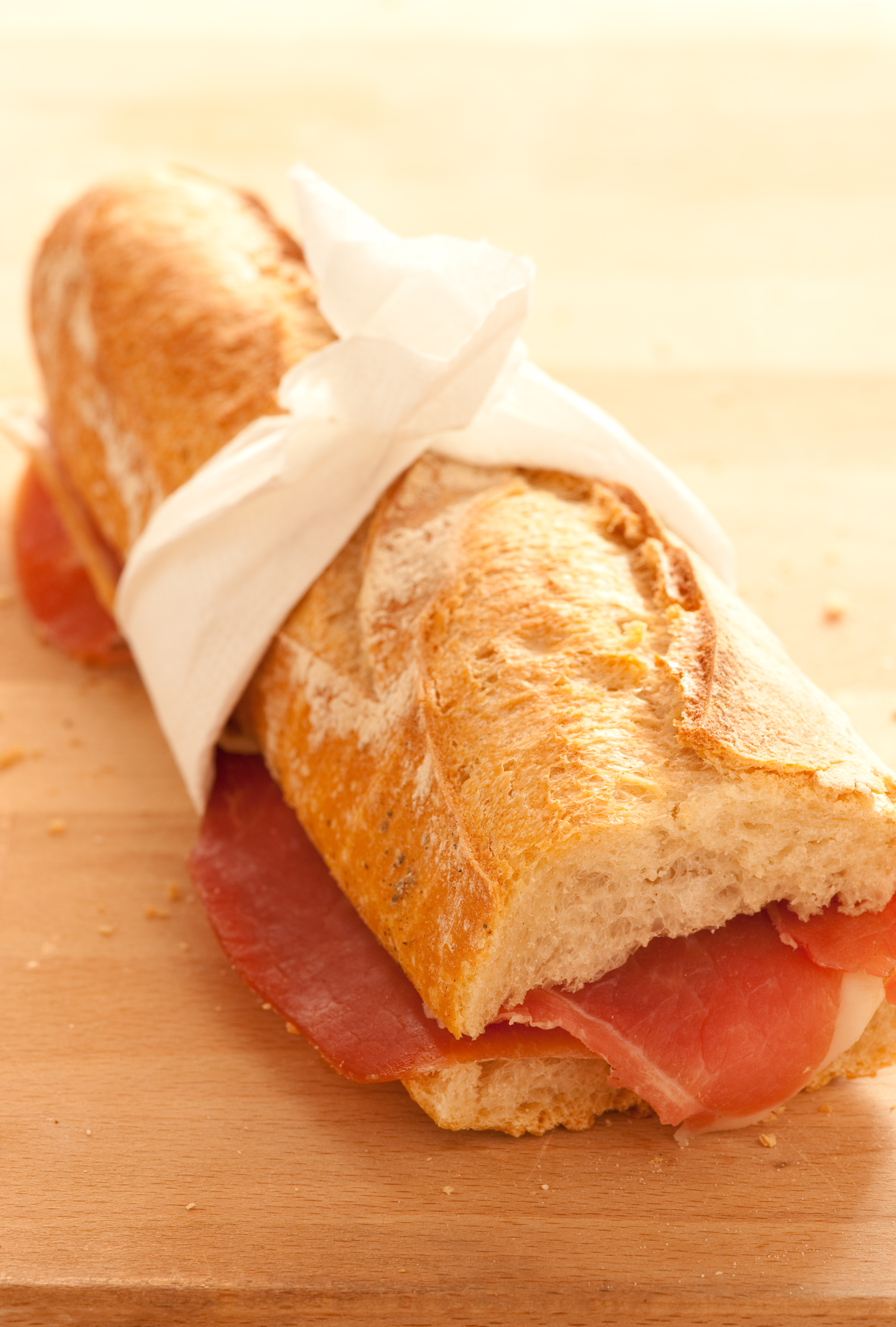 Baguette sandwich.